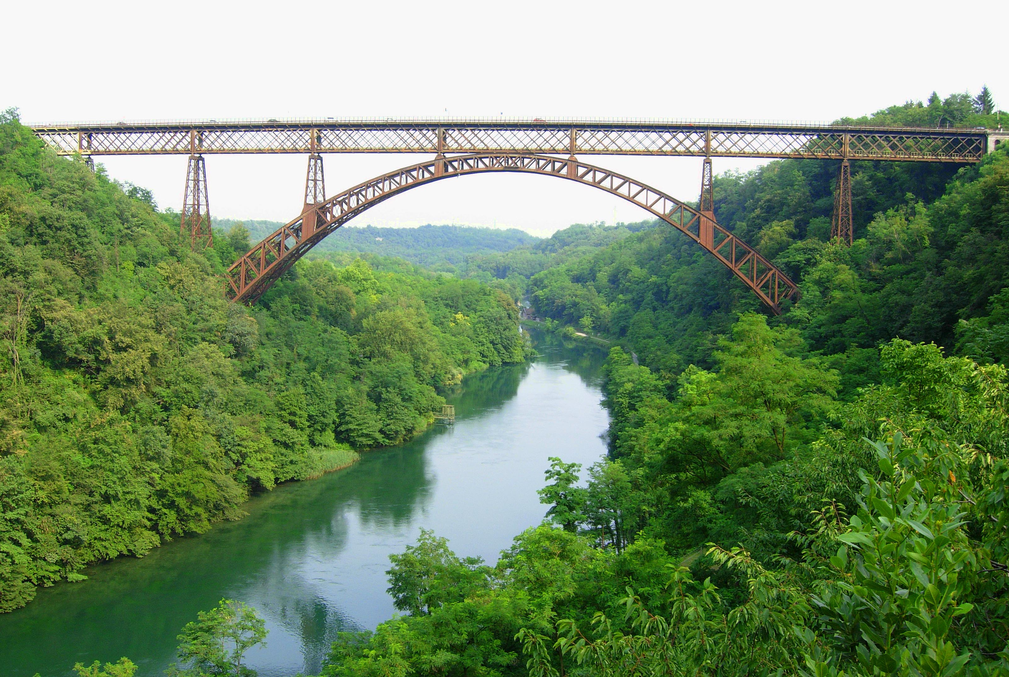 Bridge over Adda river, Ponte sul fiume Adda